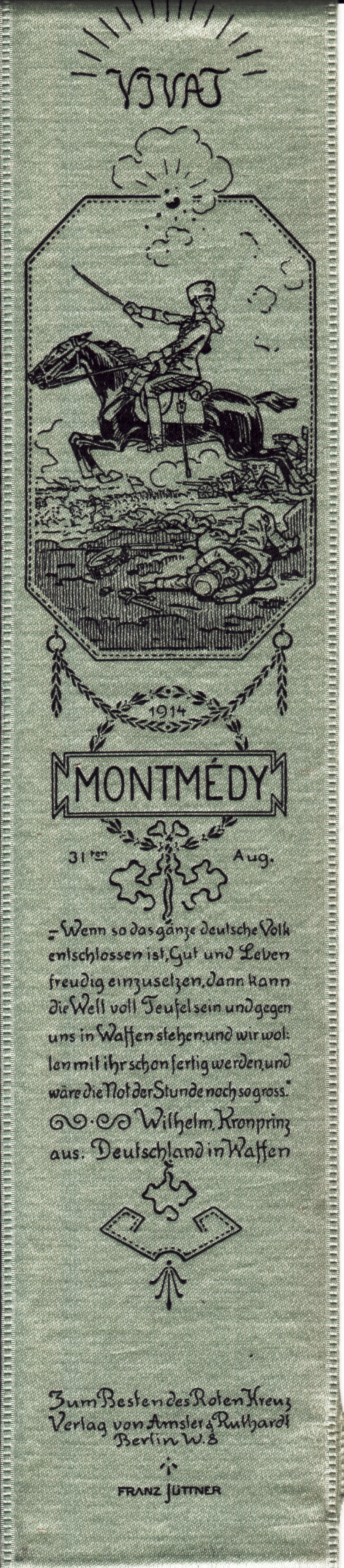 World War I Vivat ribbon with words Montmédy 31 Aug. 1914. The ribbon features a Hussar charging with drawn sword across the battlefield. Printed by Amsler & Ruthardt in Berlin for German Red Cross to raise funds for war relief. The ribbon is a light green and measures 16" x 2 1/2".